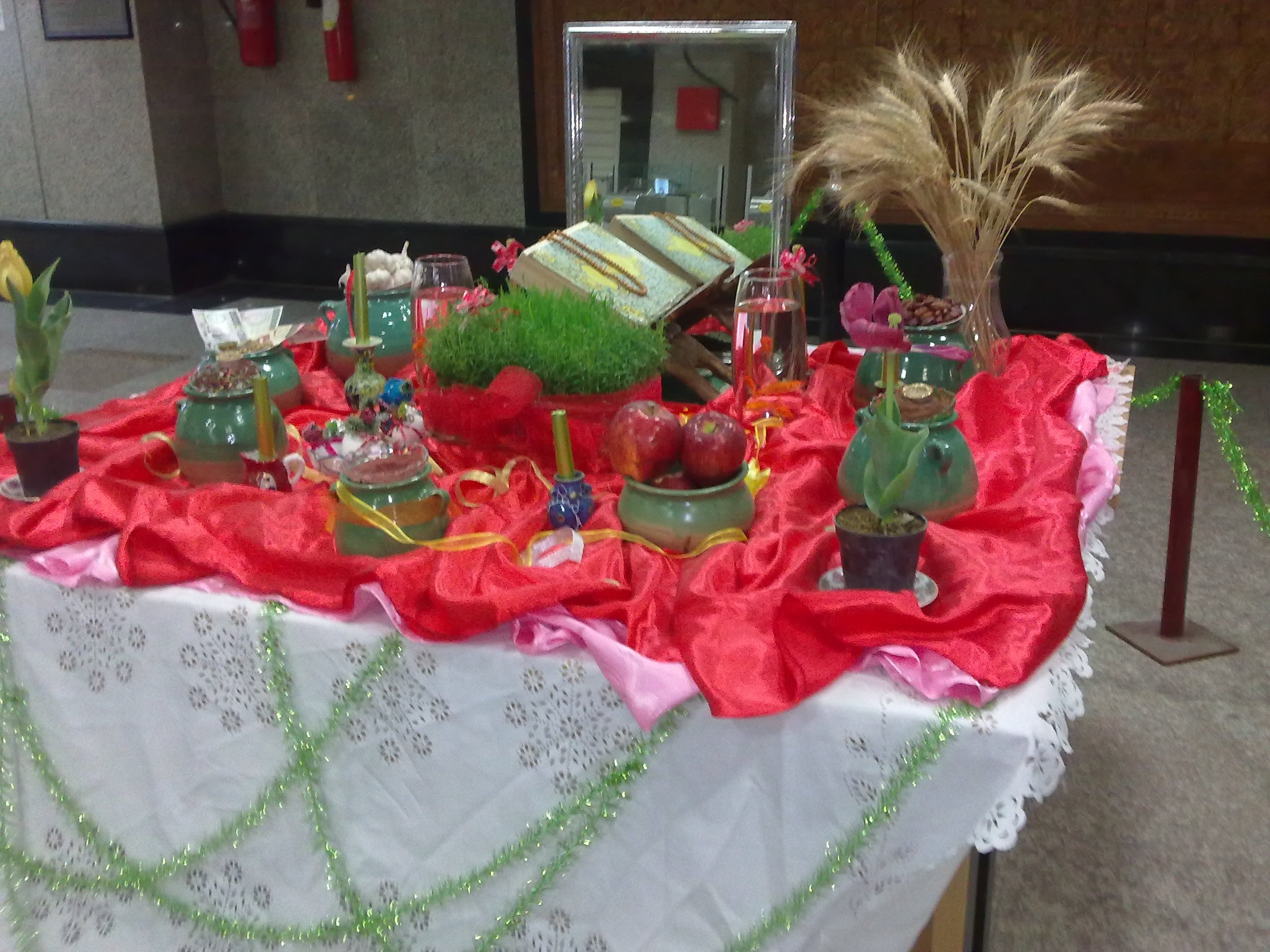 Haft-Seen